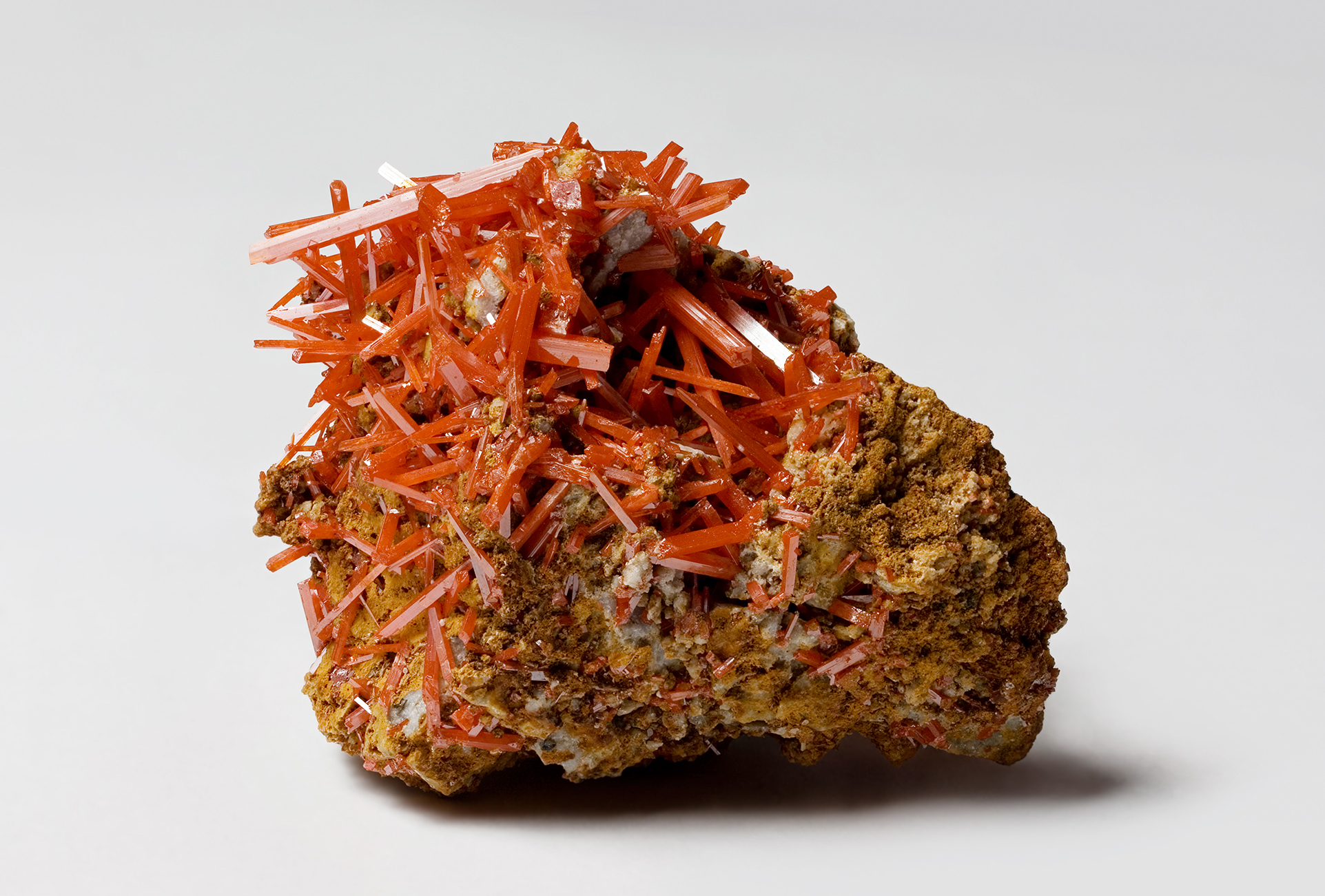 Crocoite from the Dundas extended mine, Dundas, Tasmania, Australia Camera data Camera Canon EOS 400D Lens Canon EF 70-200mm f4L w/ 12mm extension tube Flash Shoot through umbrella Focal length 94 mm Aperture f/11 Exposure time 1/160 s Sensivity ISO 100